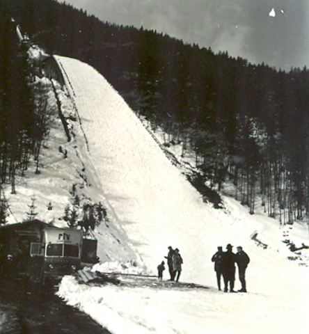 An RTV report car in Planica.